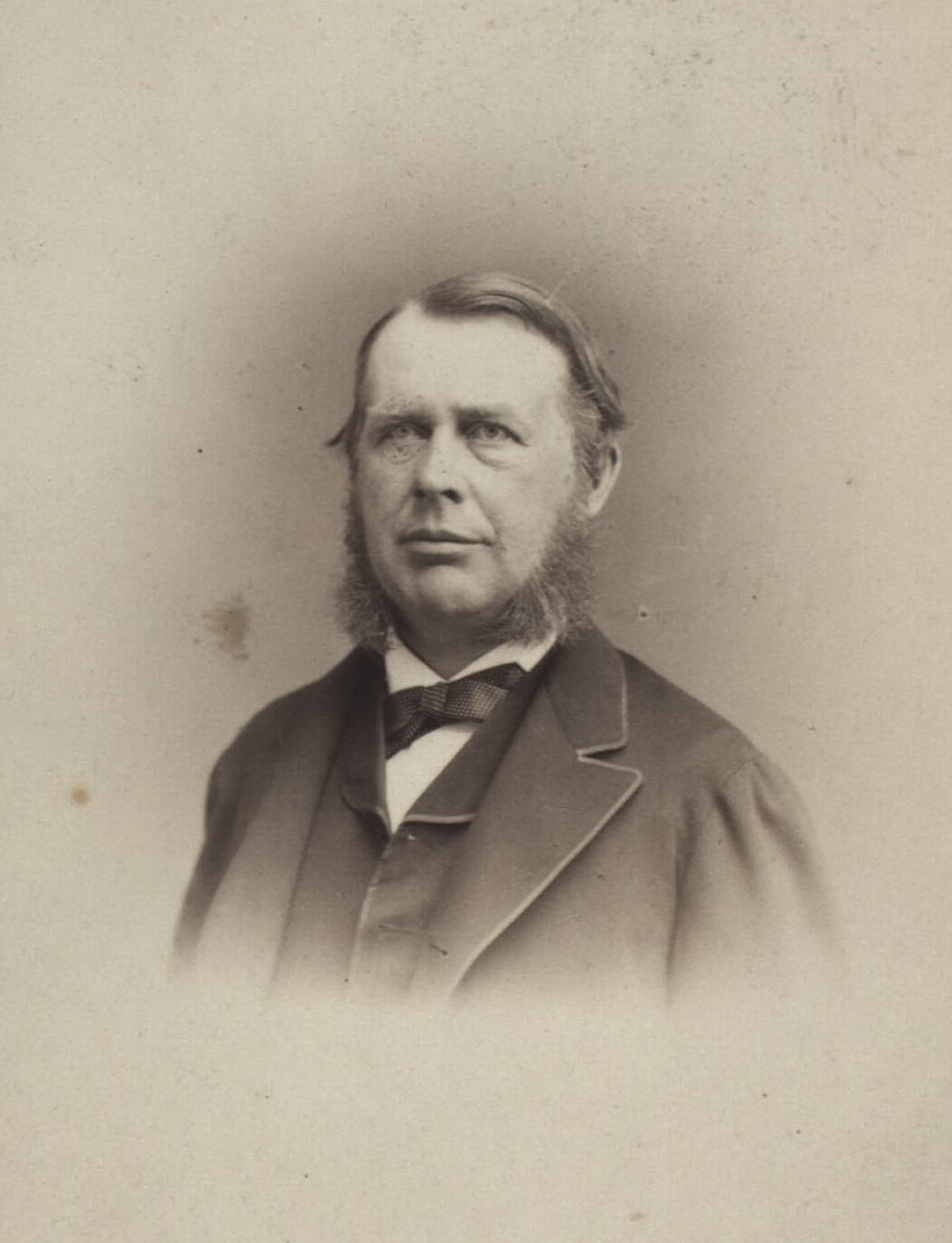 Danish foreign minister, landowner, MP, count Frederik Georg Julius Moltke (1825-1875)